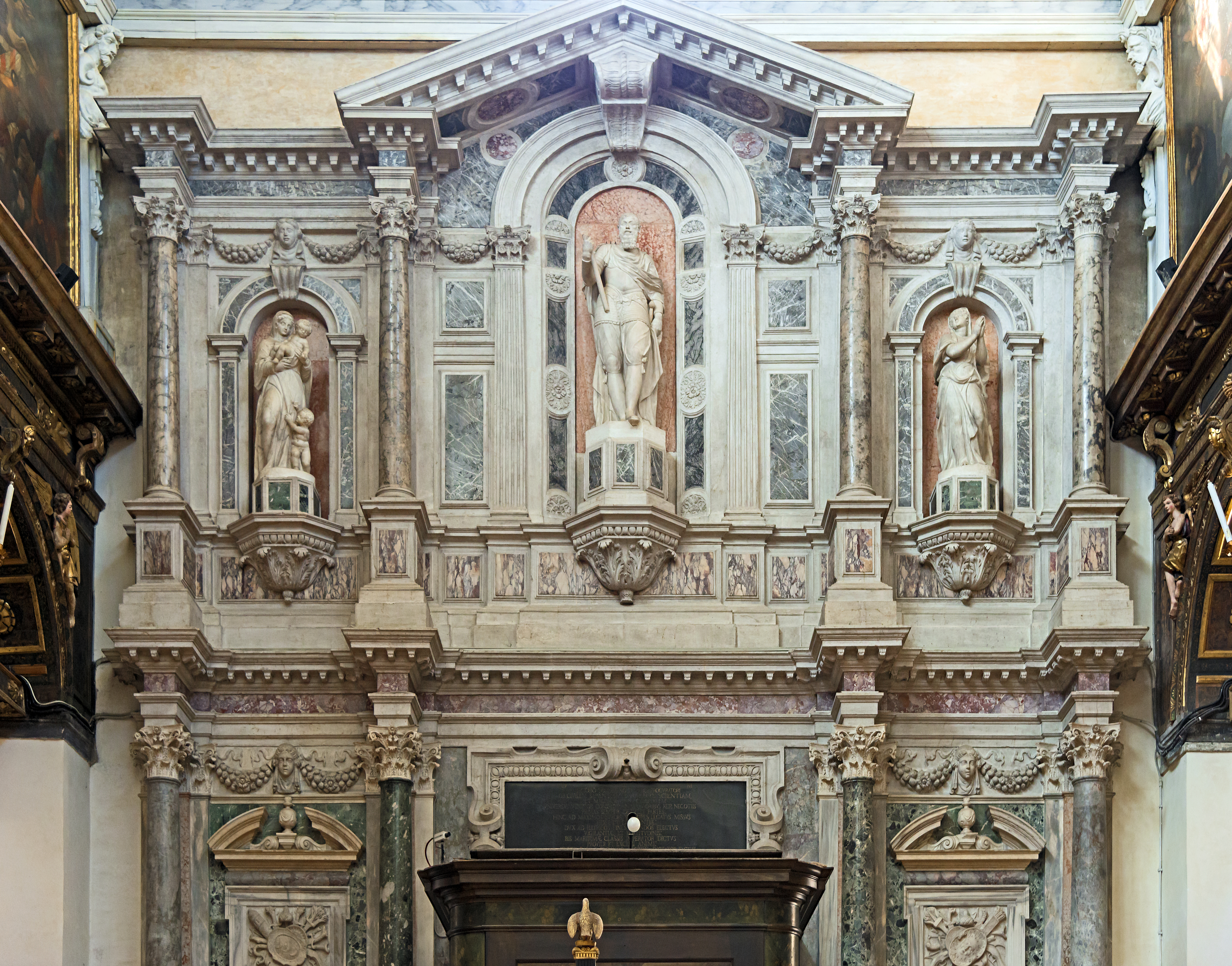 Santa Maria dei Carmini church — in Venice. The reverse side of the facade, shows the tomb of Jacopo Foscarini, attorney of San Marco and admiral of the Venetian fleet; by Francesco Contin.